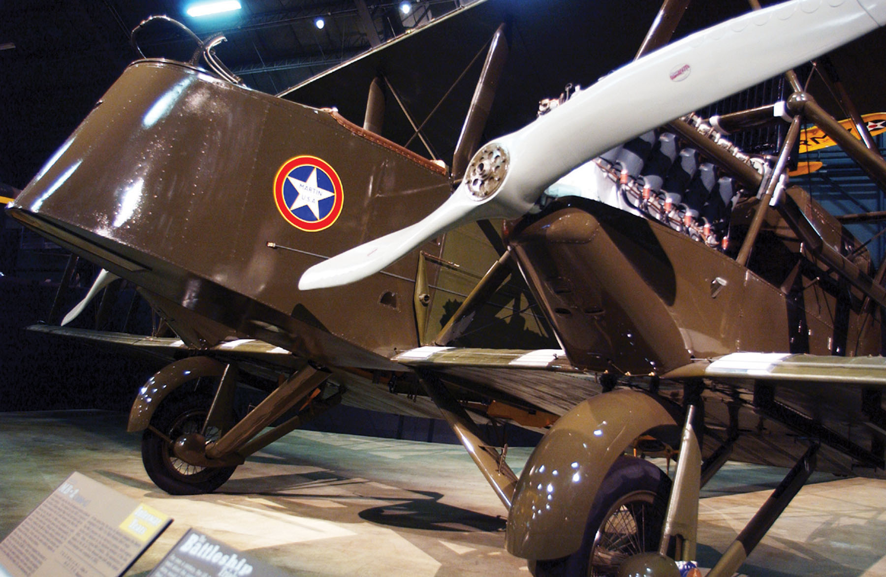 Martin MB-2 (NBS-1) reproduction in the Early Years Gallery at the National Museum of the United States Air Force in Dayton, Ohio; closeup of front section, showing nose, landing gear, and left engine nacelle.